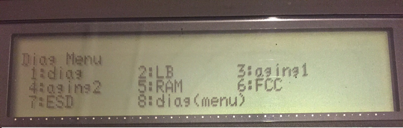 PCE500S Diagnostic menu.